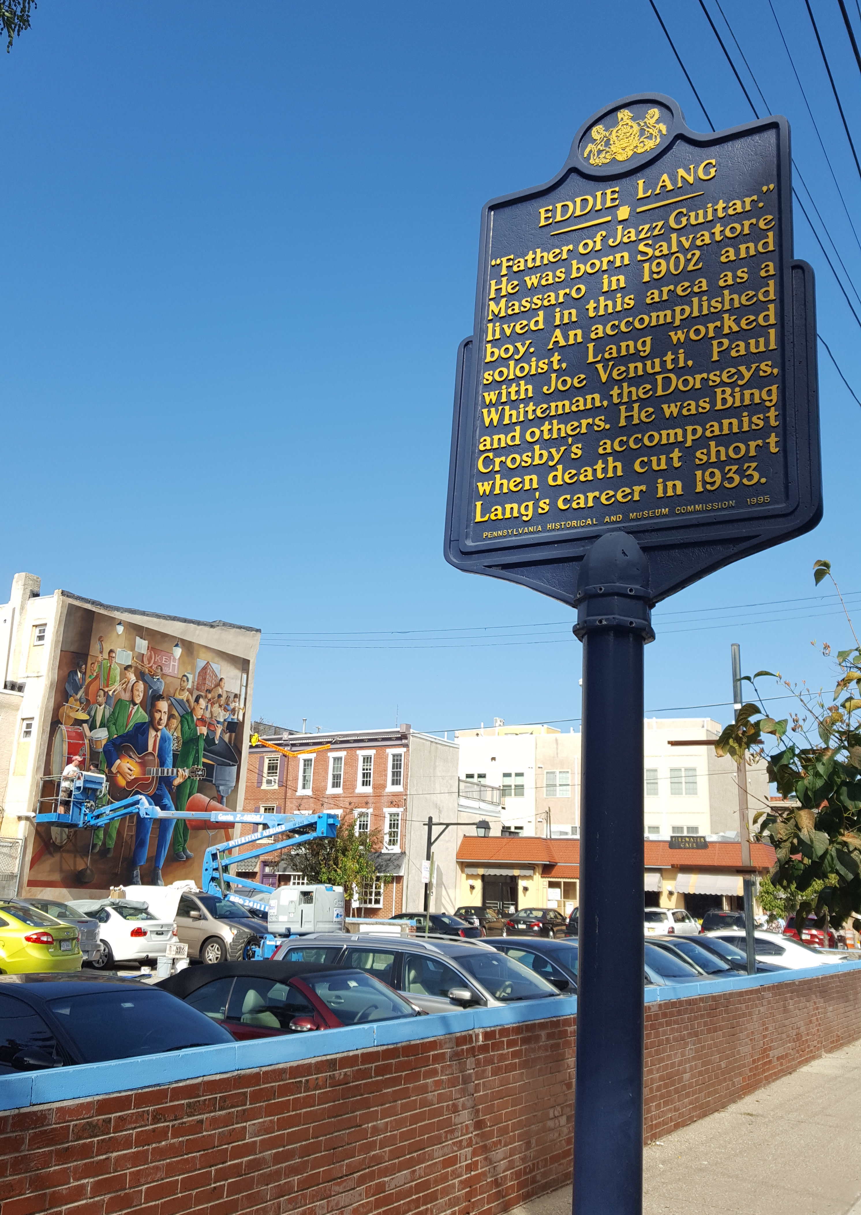 Eddie Lang Pennsylvania Historical Market and mural at 7th and Fitzwater Streets in Bella Vista, South Philadelphia on October 19, 2016. Photo by Morris Levin.